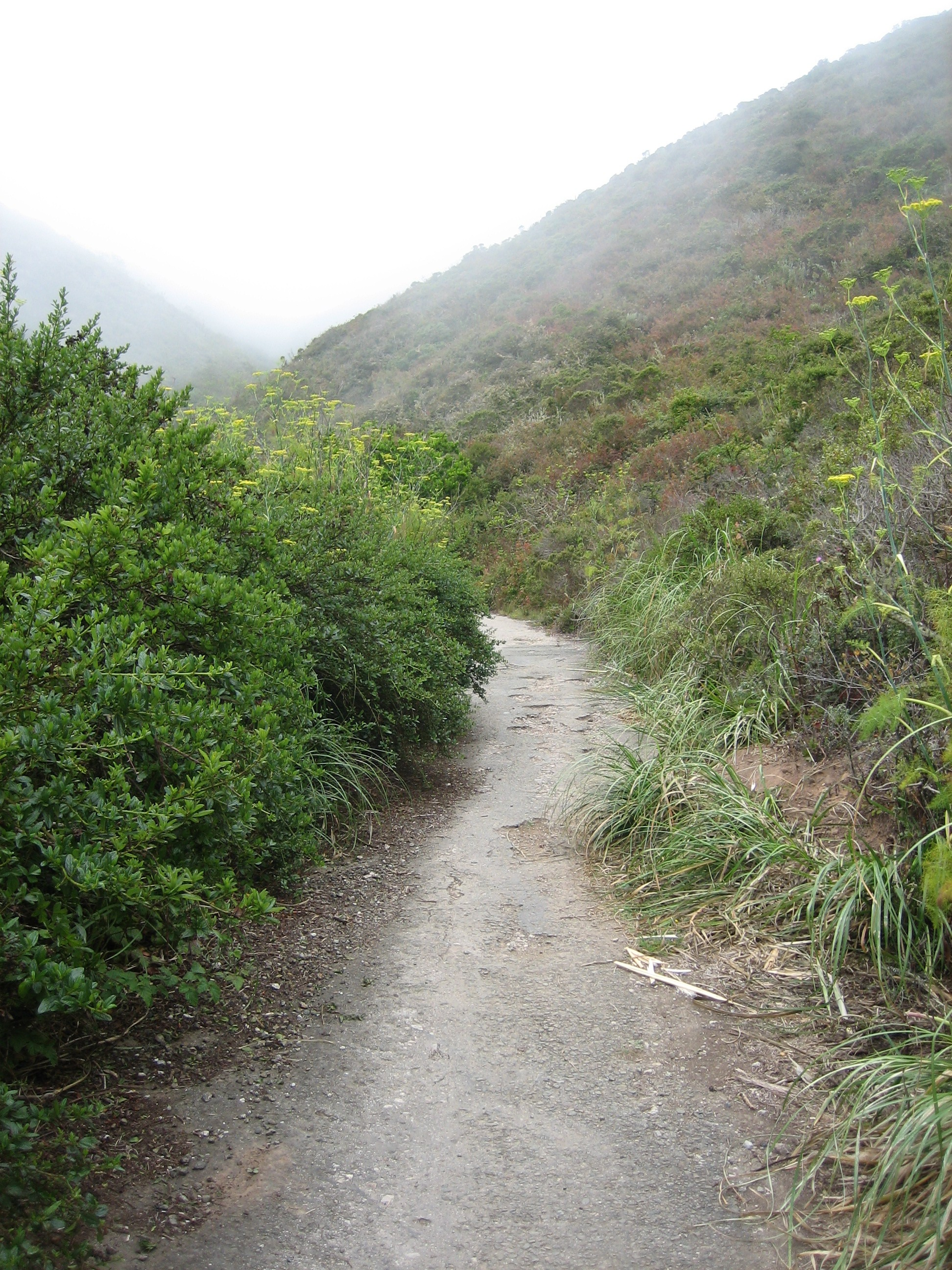 The old Pedro Mountain Road